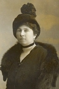 Sophie and Lioudmila Buxhoeveden